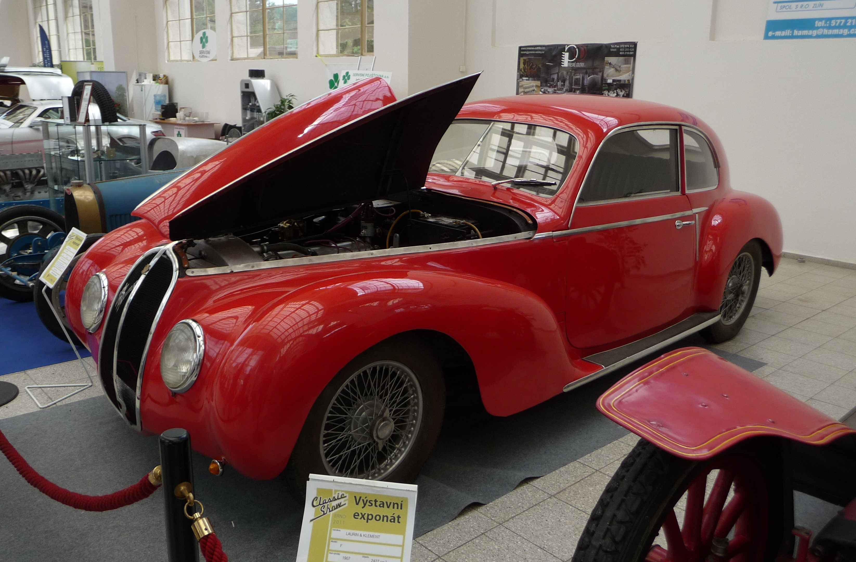 Alfa Romeo Italia 6C 2500 Sport, year 1942, Classic Show Brno 2011, The Brno Exhibition Grounds -10 -5 -3 -2 ◄ ► +2 +3 +5 +10